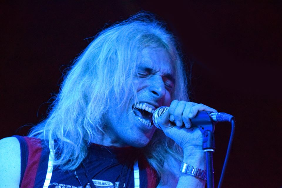 Nebojša Maksimović during his performance with his band "Witch 1" at the Beer Garden festival, at Ada Ciganlija (Belgrade, Serbia, July 22, 2017)